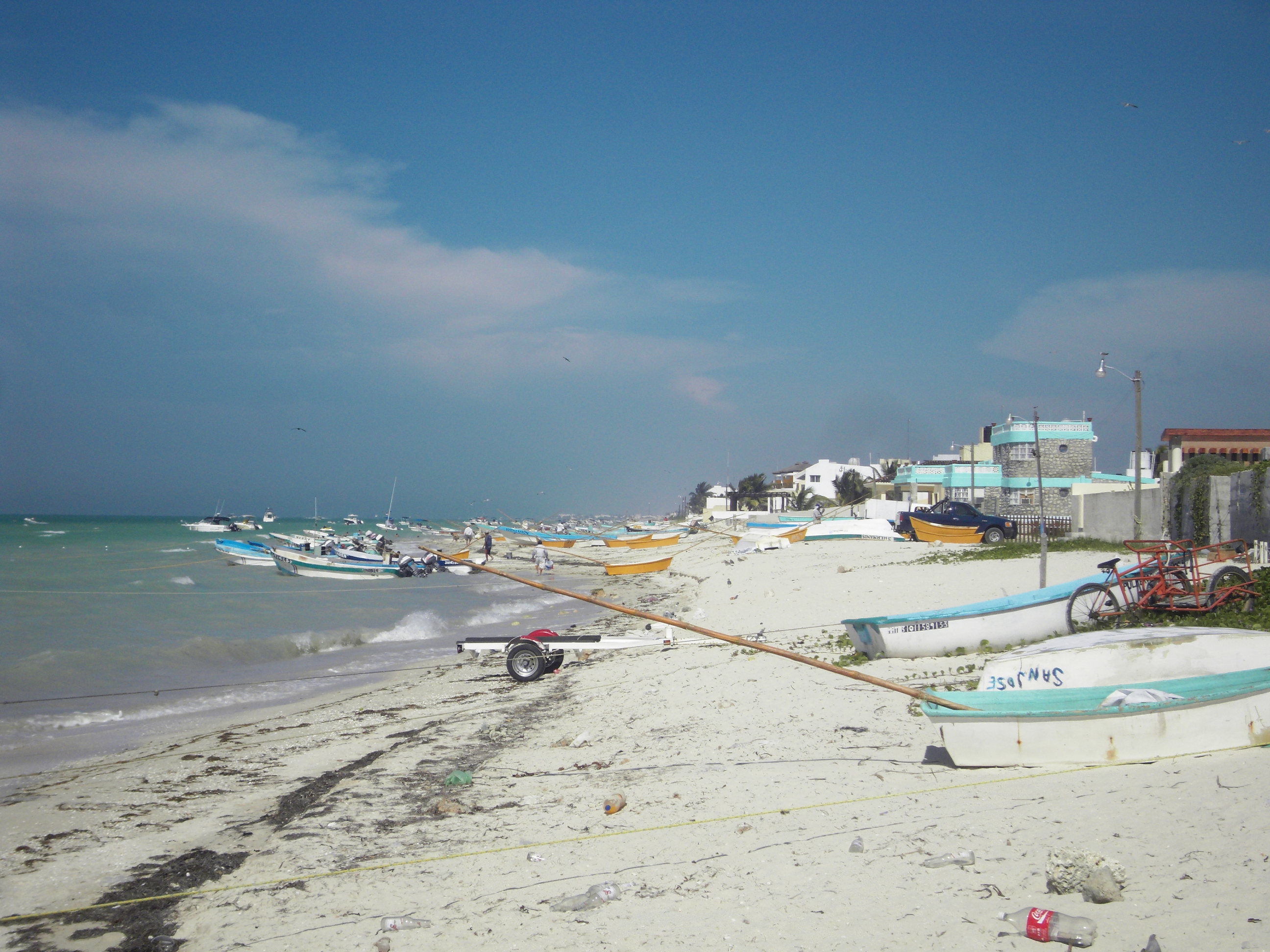 Beach and boats in Chicxulub Puerto (Yucatán, Mexico)